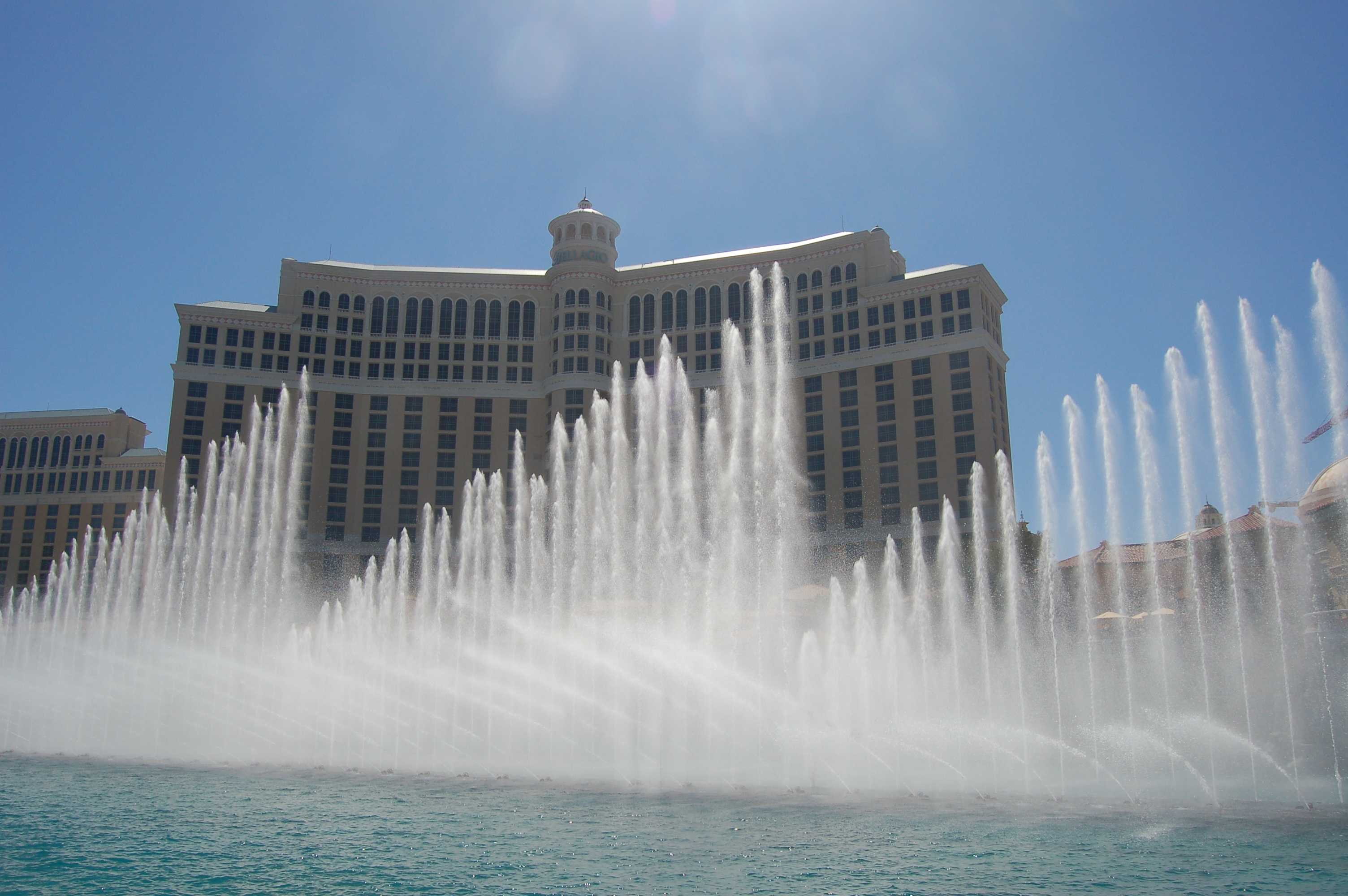 Fountains @ Bellagio, Las Vegas